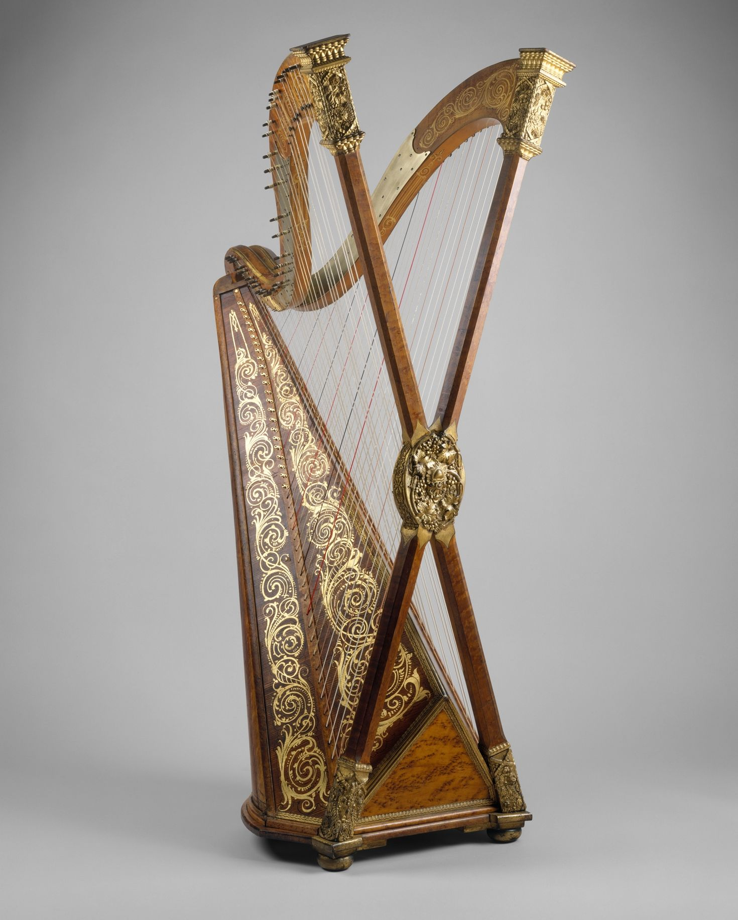 American; Double Chromatic Harp; Chordophone-Harp